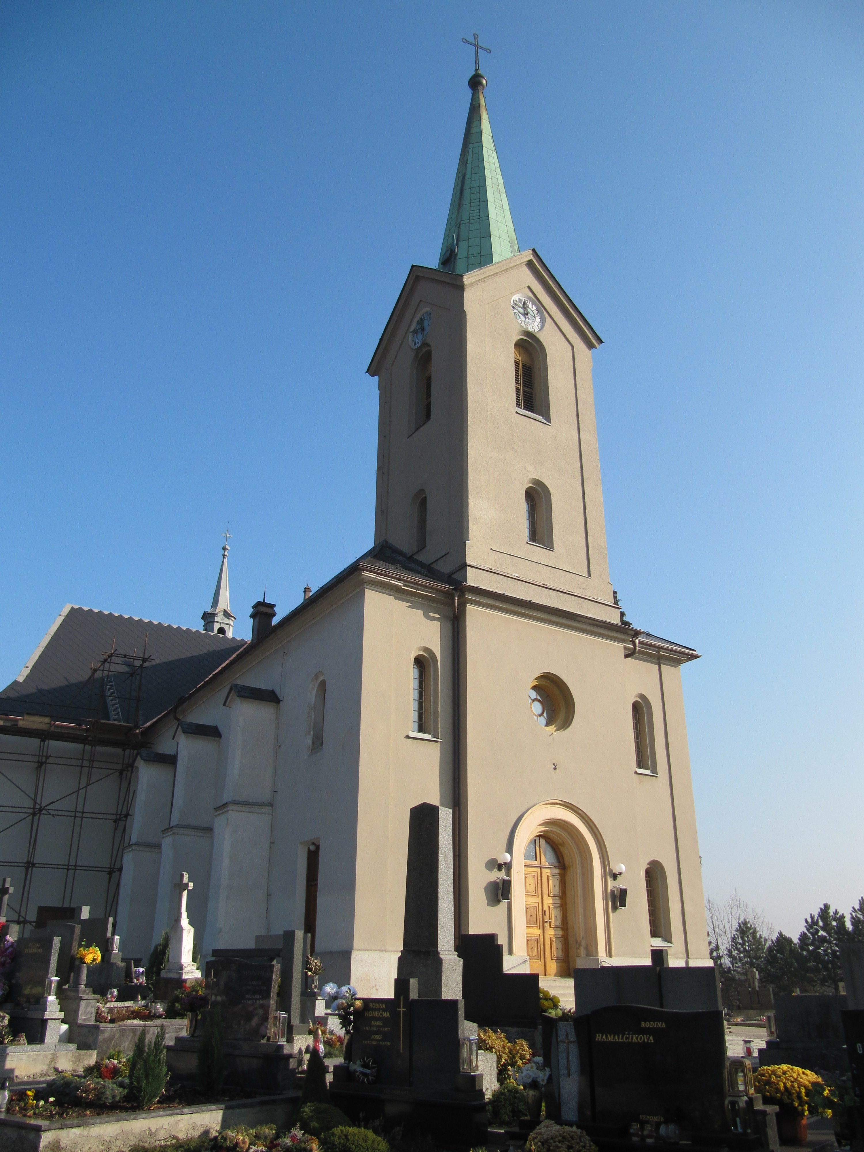 Slavičín in Zlín District, Czech Republic. Church of St. Adalbert.